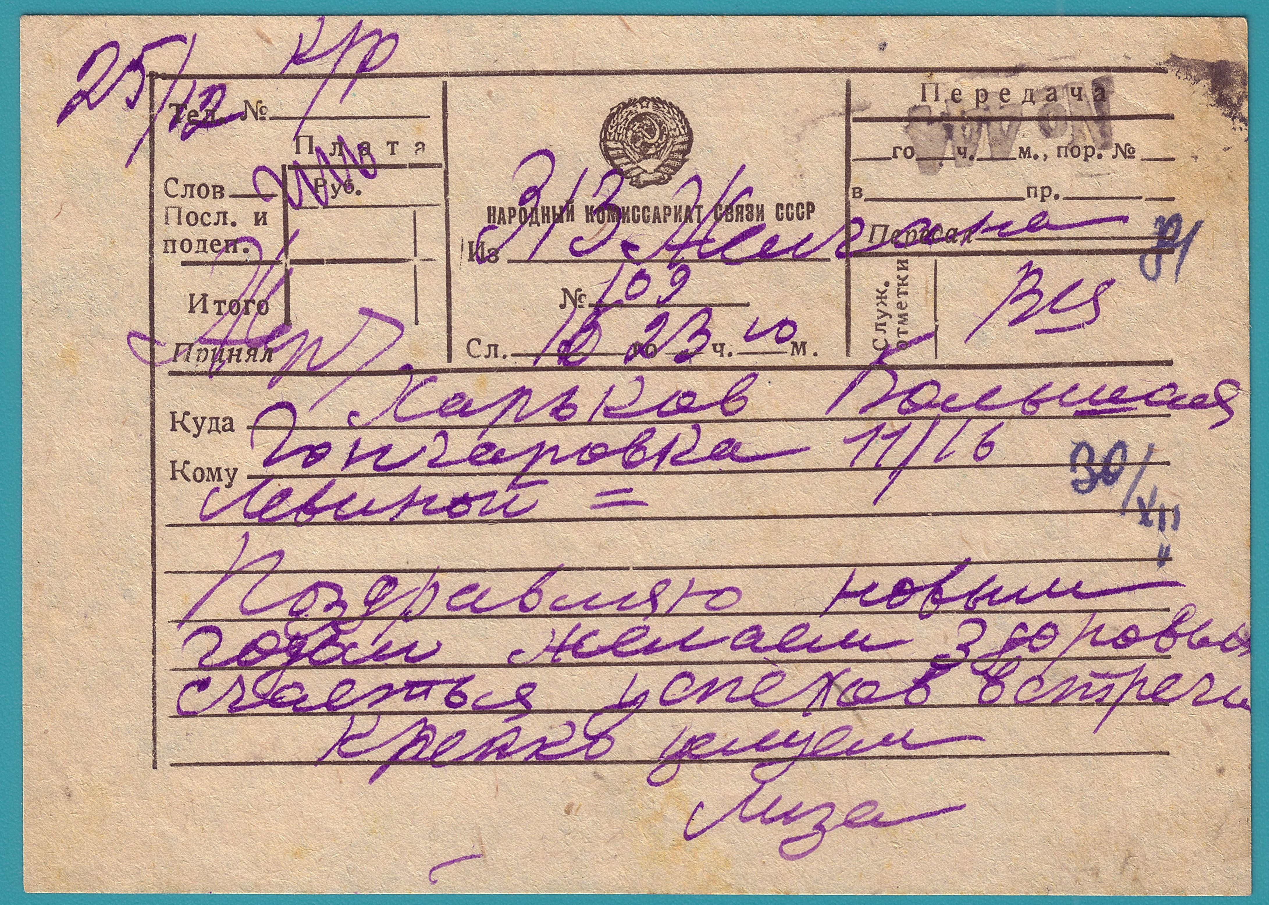 USSR Peoples Comissariat of Communication (NKS) telegram, Kharkov. 1944 December 25 23:10 New Year's telegram of 16 words including address and signature of Zhelgana to Kharkov, Big Goncharovka, 11, kv.16, Levina. Presented on December 30. Paper forms coarse wrapping (wartime). In 1946, the NKS was renamed the Ministry of Communications.